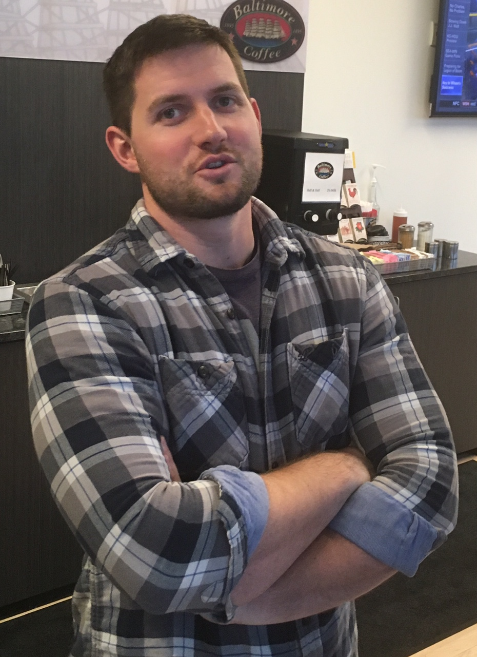 Ben